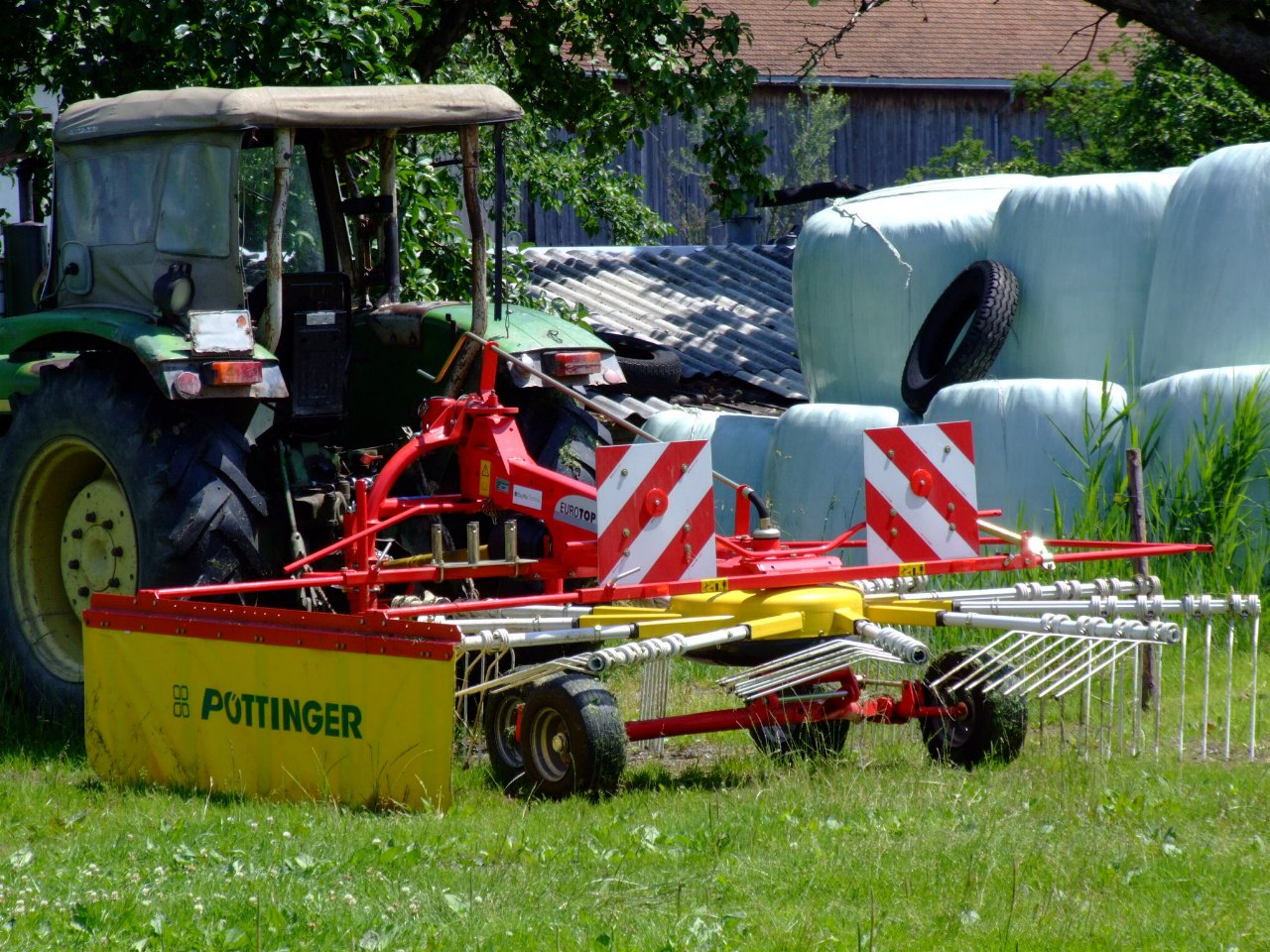 Pöttinger rotary hay rake